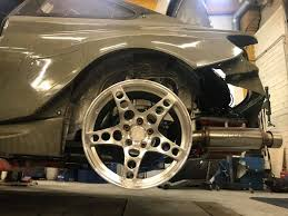 A magnesium forged wheel fitted on BMW racing car. Above wheels is used by HGK racing team on their BMW. The wheels are also identified as HGK style forged by SMW Wheels